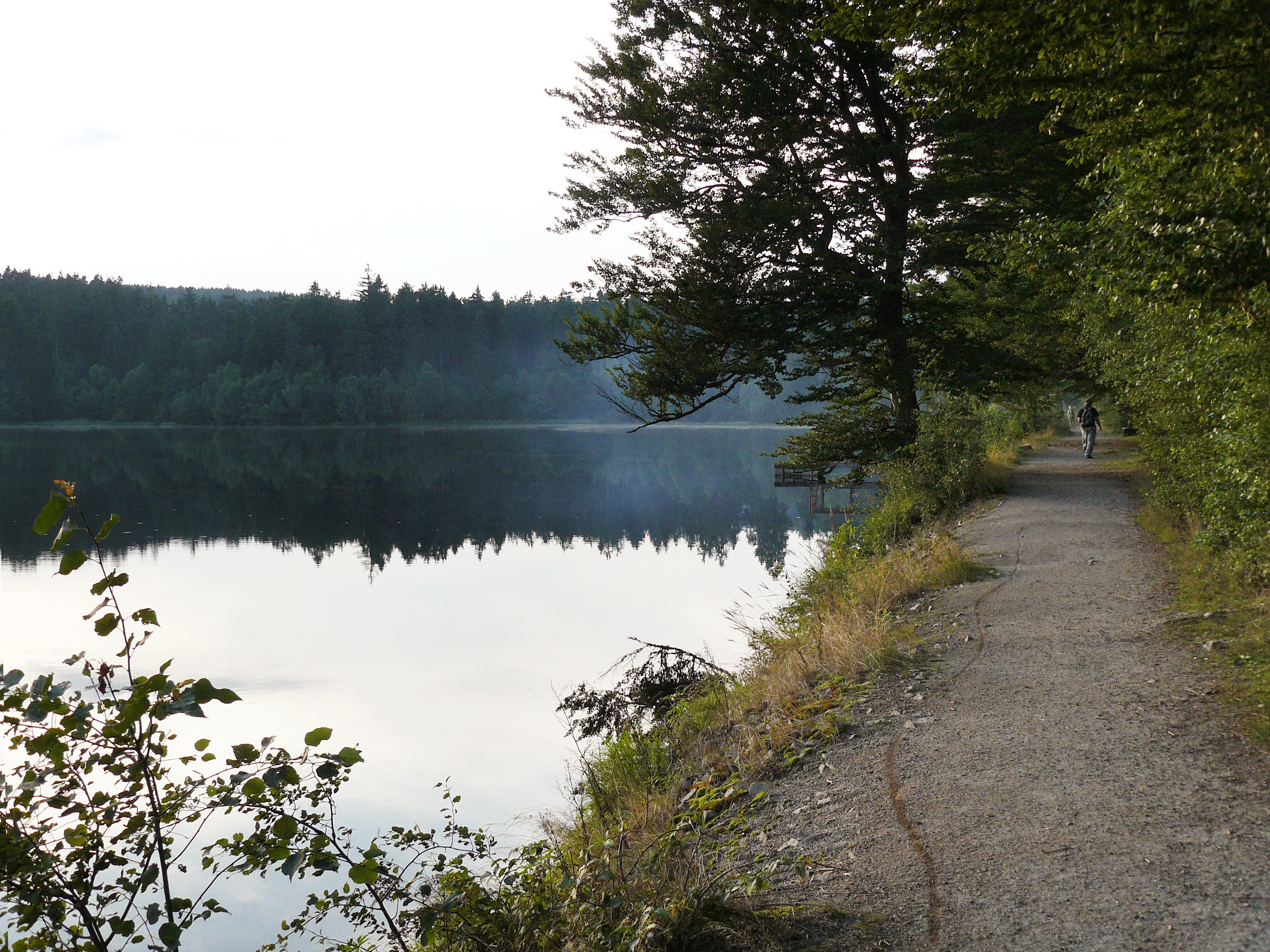 Nature reserve Velký Pařezitý rybník, Jihlava District, Czech Republic.